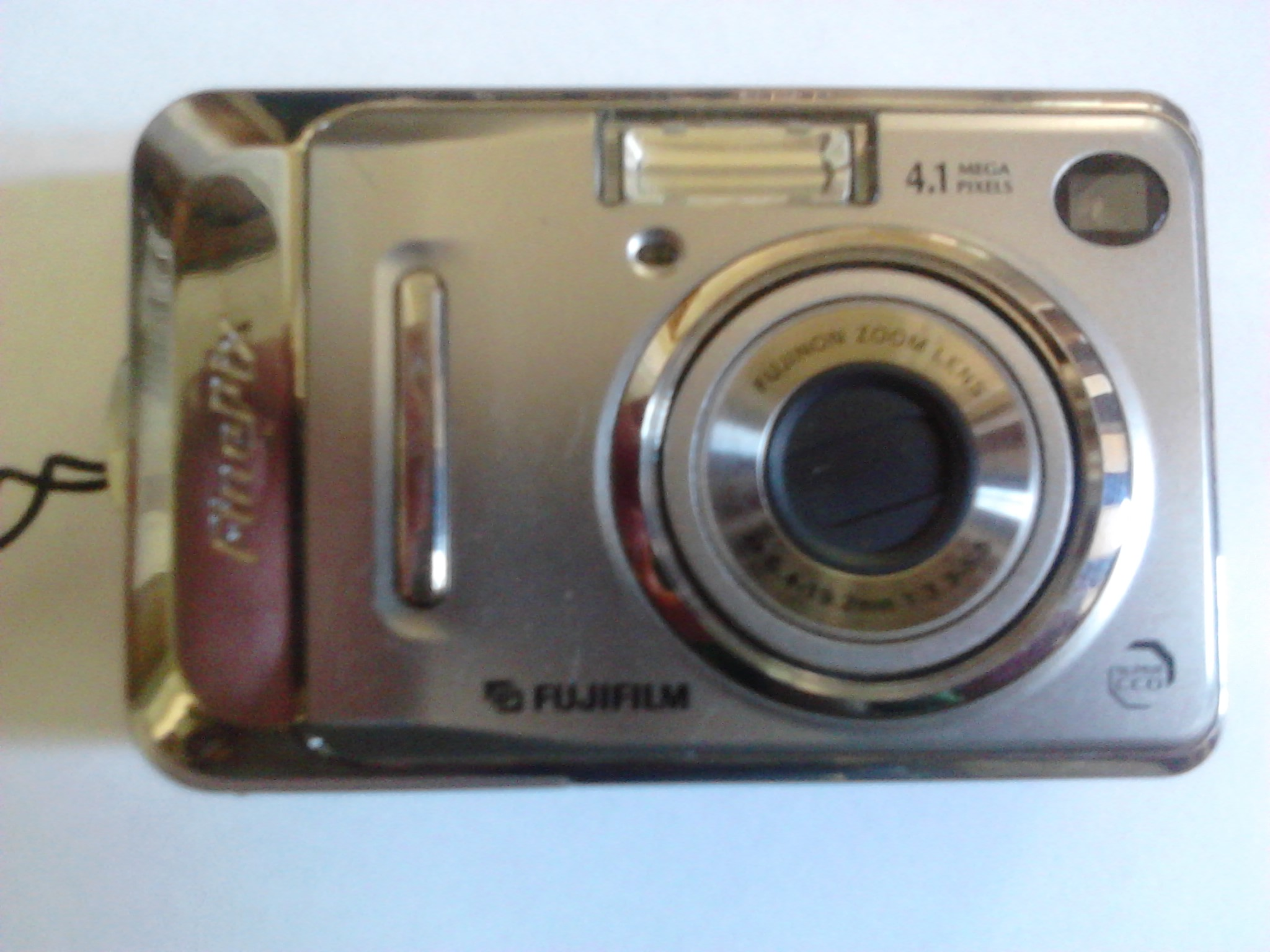 Photograph of Fujifilm FinePix A400.